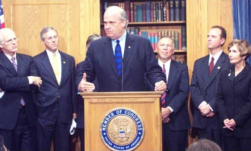 Source website description: Senator Thompson (en) joins other campaign finance reform supporters at a press conference announcing that supporters in the House have obtained enough signatures to bring the measure before the full House for a vote.